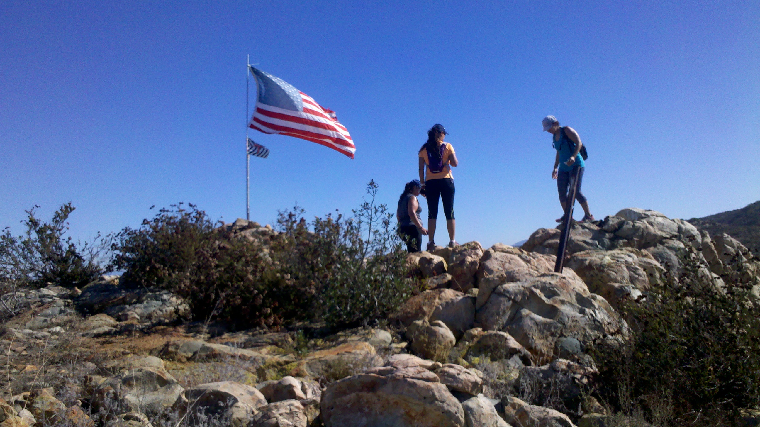 Jamul Mountains, first peak on trail from upper Otay Lake with flag